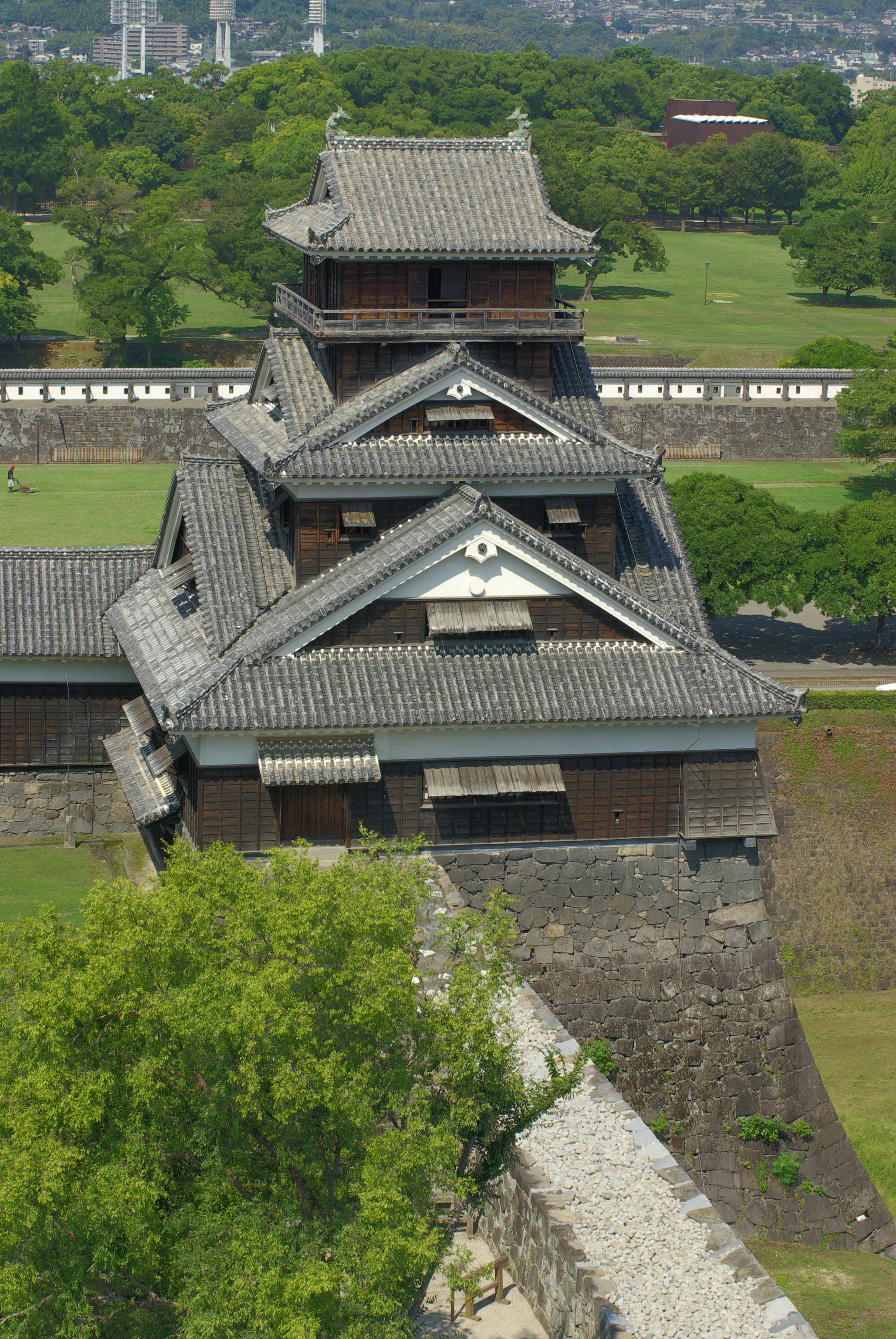 Uto tower of Kumamoto Castle as seen from the smaller Tenshu.